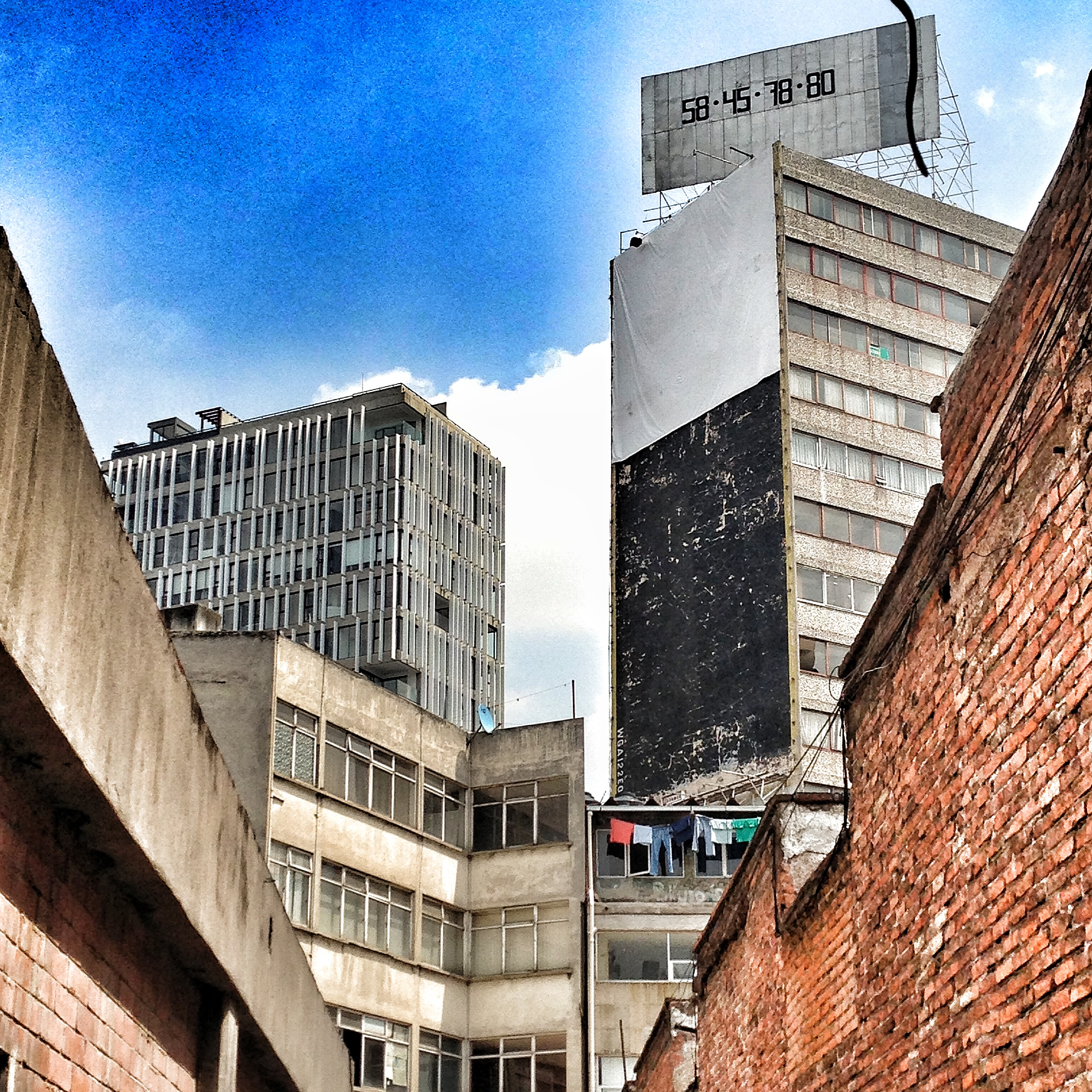 Torre Amsterdam and Insurgentes 300 as seen from Calle San Luis Potosí, 2013